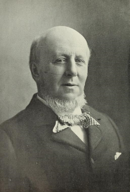 Picture of James B. Angell